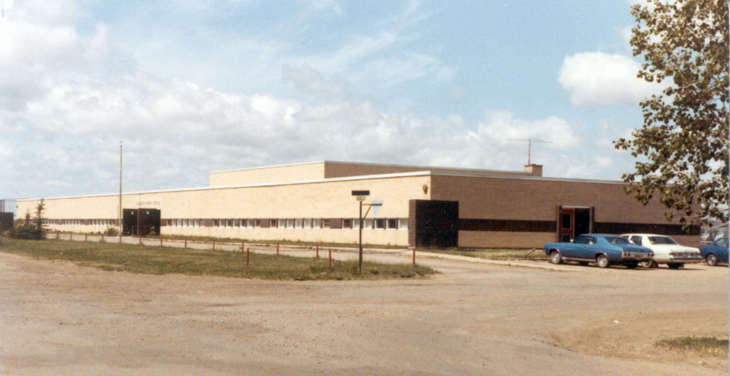 Radville Regional High School, taken 1983.